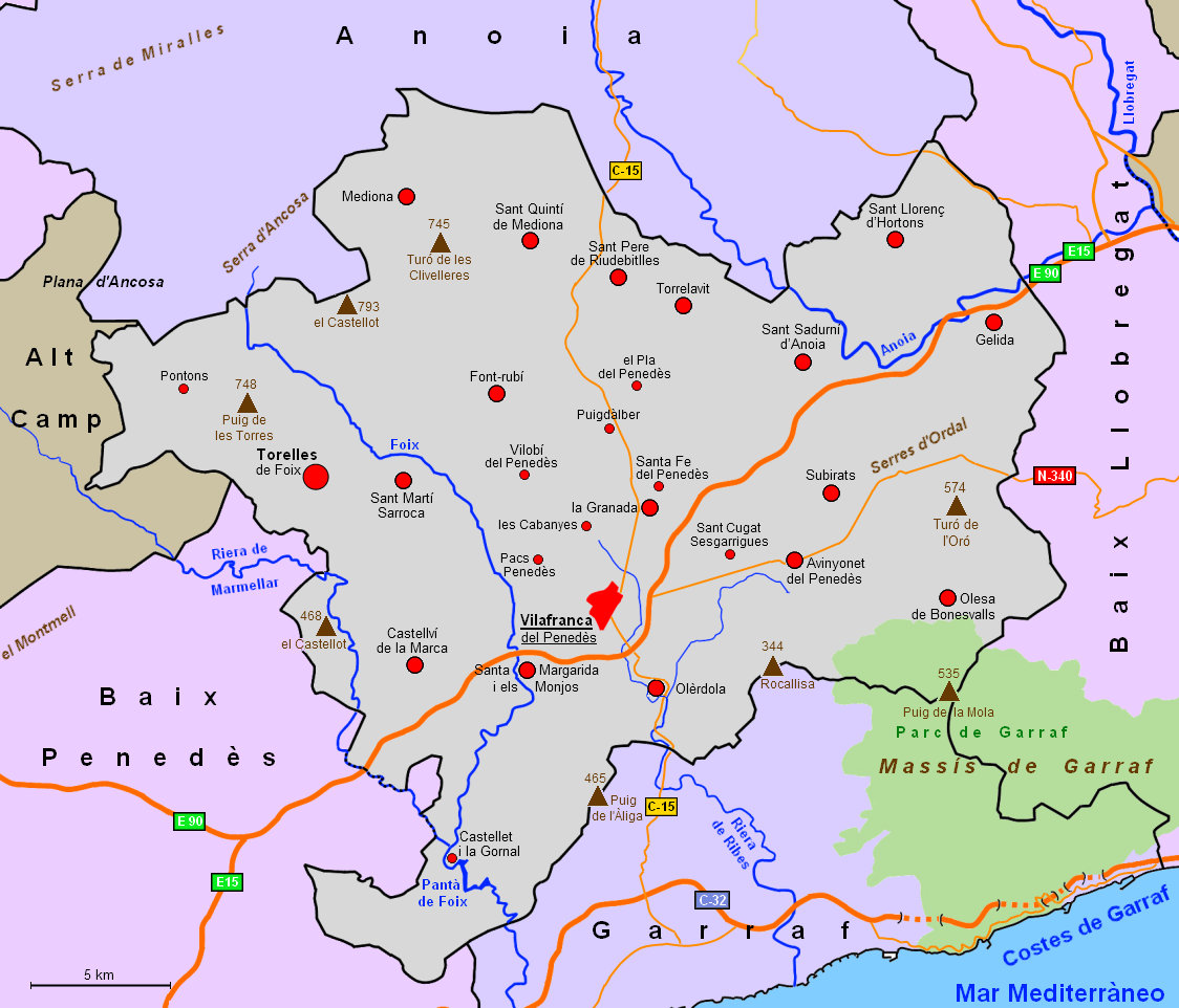 Map of Alt Penedès